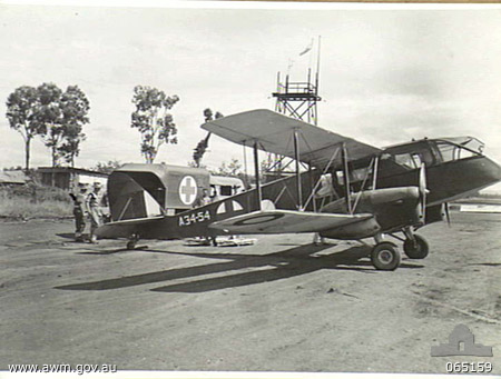 AWM caption : MAREEBA, QLD. 1944-03-19. ARMY AMBULANCES FROM THE 2/2ND GENERAL HOSPITAL AT THE AERODROME WITH TWO PATIENTS WHO ARE TO BE TRANSFERRED BY THE AIR AMBULANCE, NO. A34-54, TO A BASE HOSPITAL. SHOWN IS:- VX119443 PRIVATE D.M. KELLY, 8TH MOTOR AMBULANCE CONVOY.